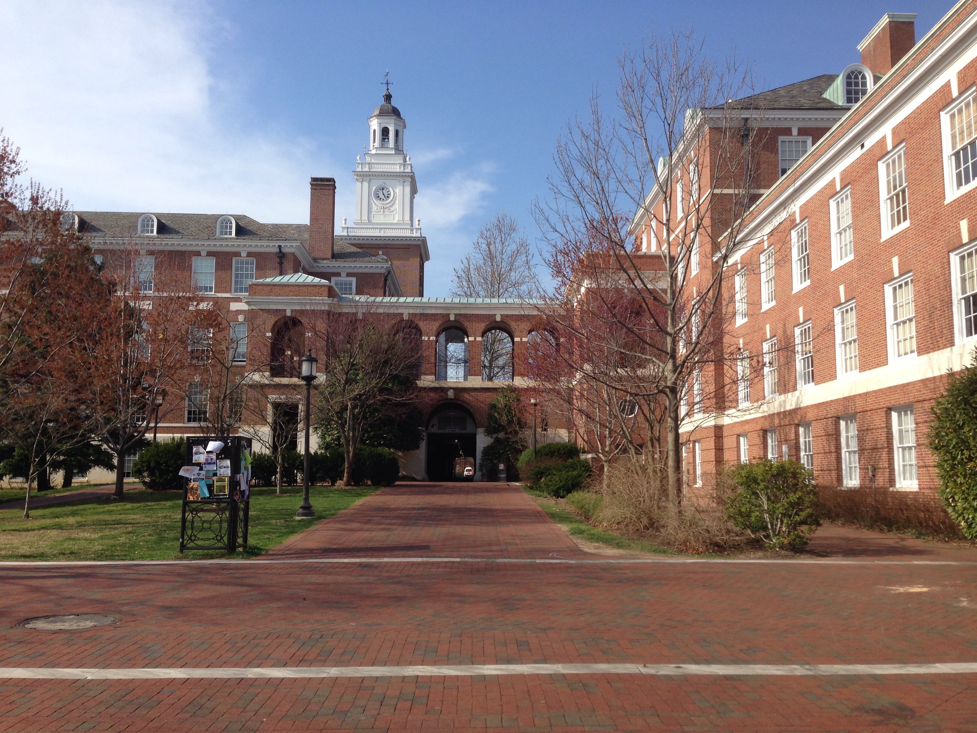 View toward Gilman Hall from Levering Plaza on the Johns Hopkins University Homewood campus.